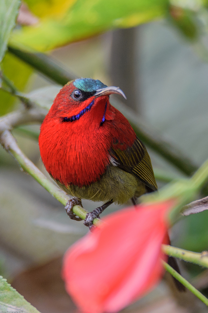 सिपराजा बुङ्गेचरा नेपाली: सिपराजा बुङ्गेचरा